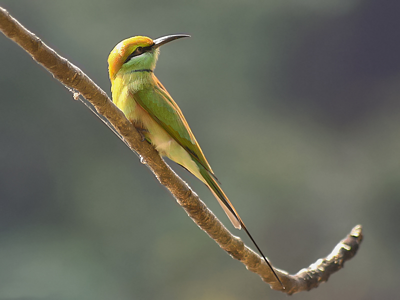 Green Bee-eater Merops orientalis in Kolkata, West Bengal, India.